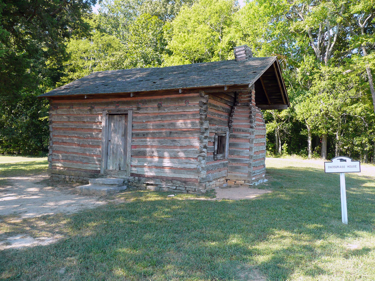 Photograph of the Snodgrass house at Chickamauga and Chattanooga National Military Park.